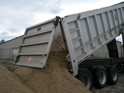 New sand arriving on NYC's East River Wharf to expand Water Taxi Beach; it is light brown in color and comes from Long Island sources. This sand comes from a sand pit in Coram Long Island NY.